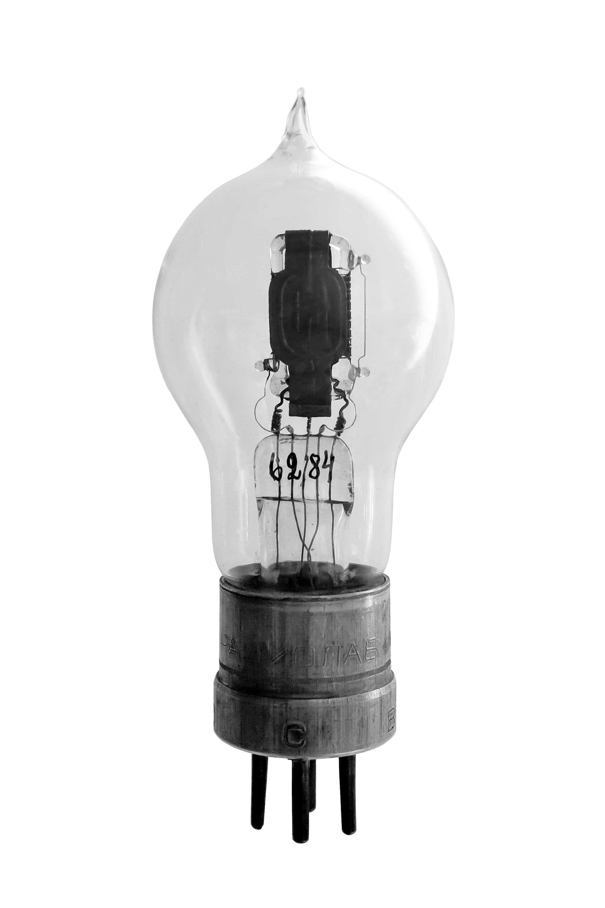 Vacuum electronic device. The exhibit of the Polytechnic Museum. Moscow.